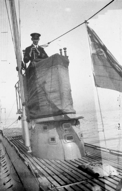 Richard Douglas Sandford VC. Place and date of deed : HM Submarine C3, Zeebrugge Raid, 22 - 23 April 1918.